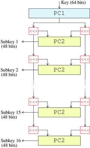 Key schedule of DES